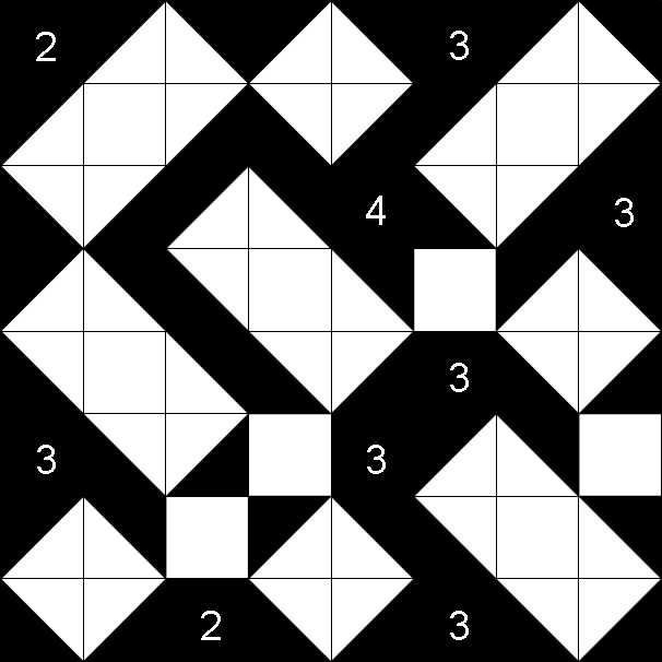 Shakashaka grid solved